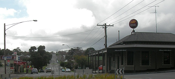 Corner of Napier and Nicholson Streets and the Black Hill Hotel. Black Hill, Victoria